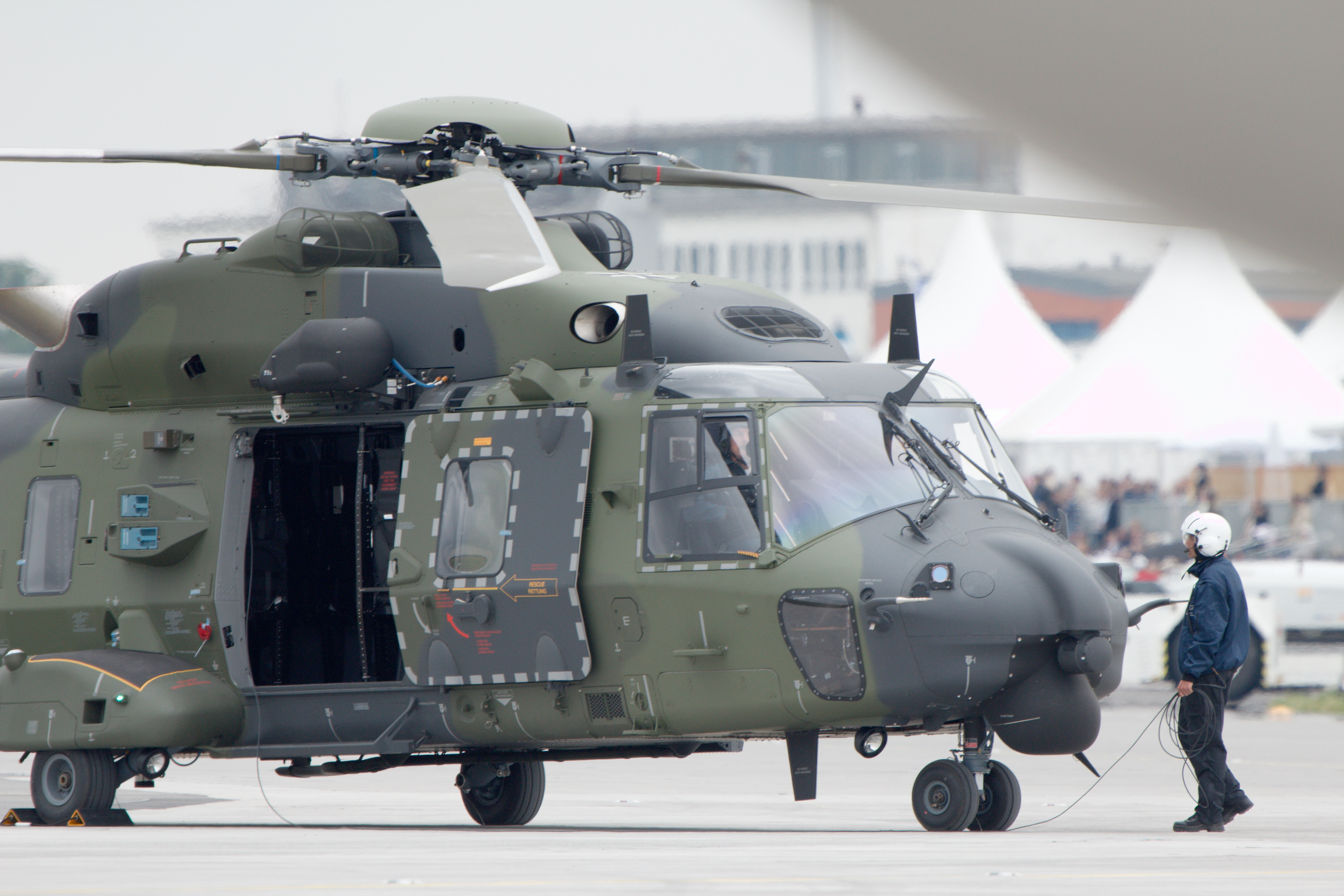 Helicpoter NH 90 at ILA 2010